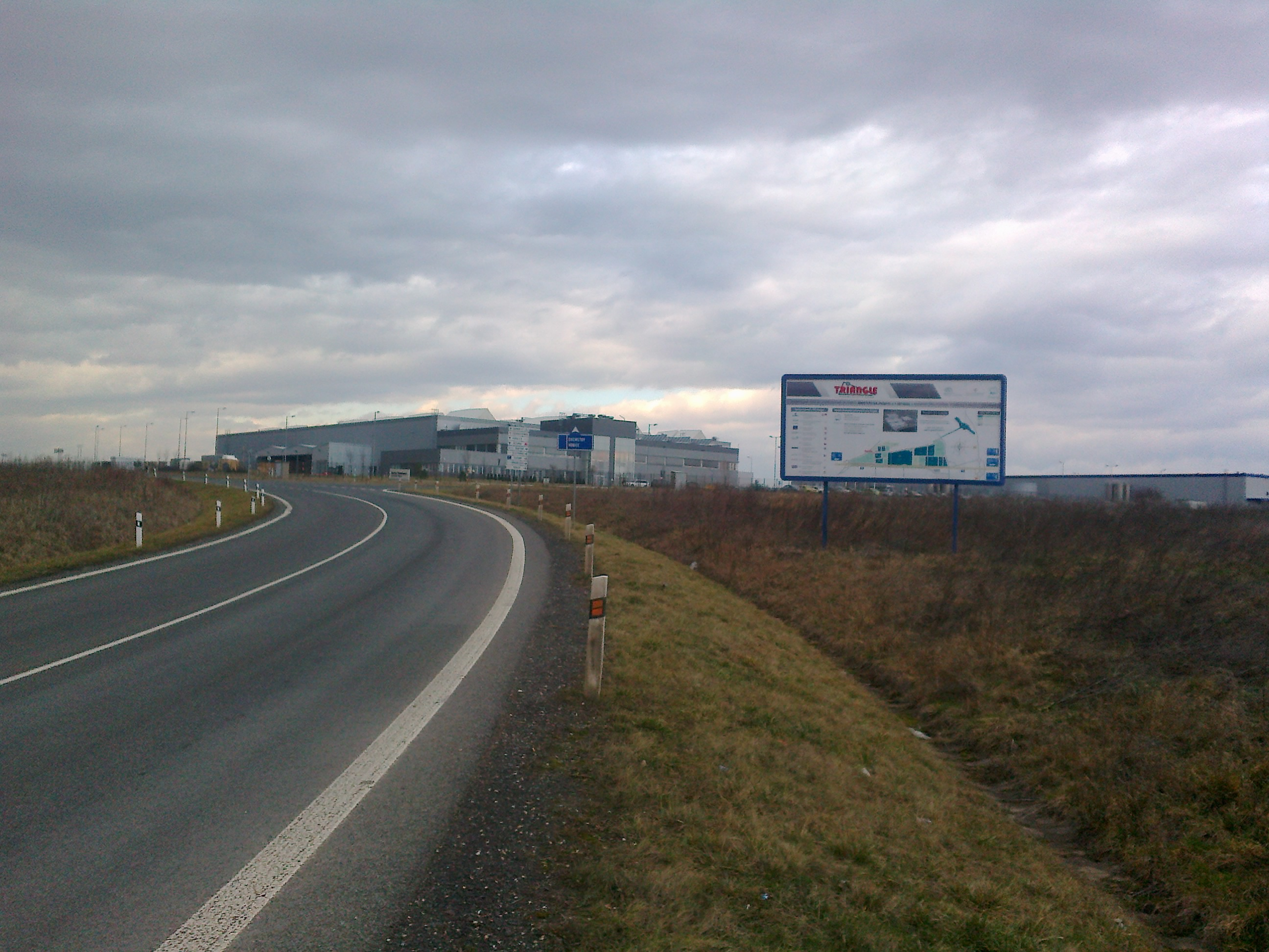 Factory in the Industrial zone Triangle by Žatec